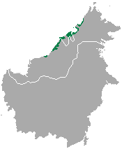 Area of Brunei Malay language were spoken.